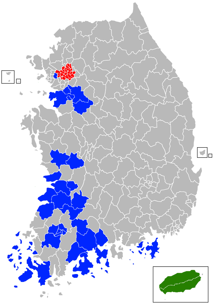 South Korean cities and counties where Gongsim invocations have been attested by researchers. Based on Im N. 2013. Source file on Commons.